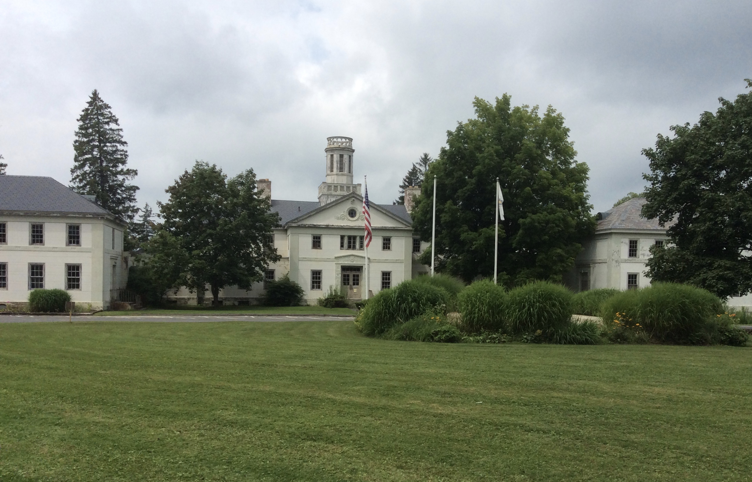 St. Martin's Hall was both a classroom and residential building. Also, it included the school's refectory.